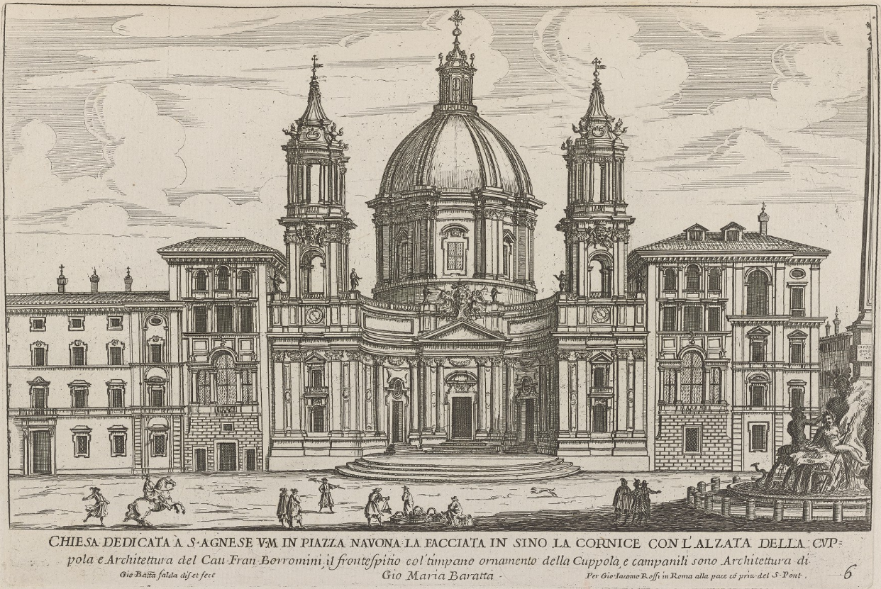 Church dedicated to Saint Agnes, Virgin Martyr, in Piazza Navona, the facade up to the cornice with the raising of the cupola and architecture by Cavaliere Francesco Borromini, the frontispiece with ornamented tympan of the cupola and the bell tower by Giovanni Maria Baratta.